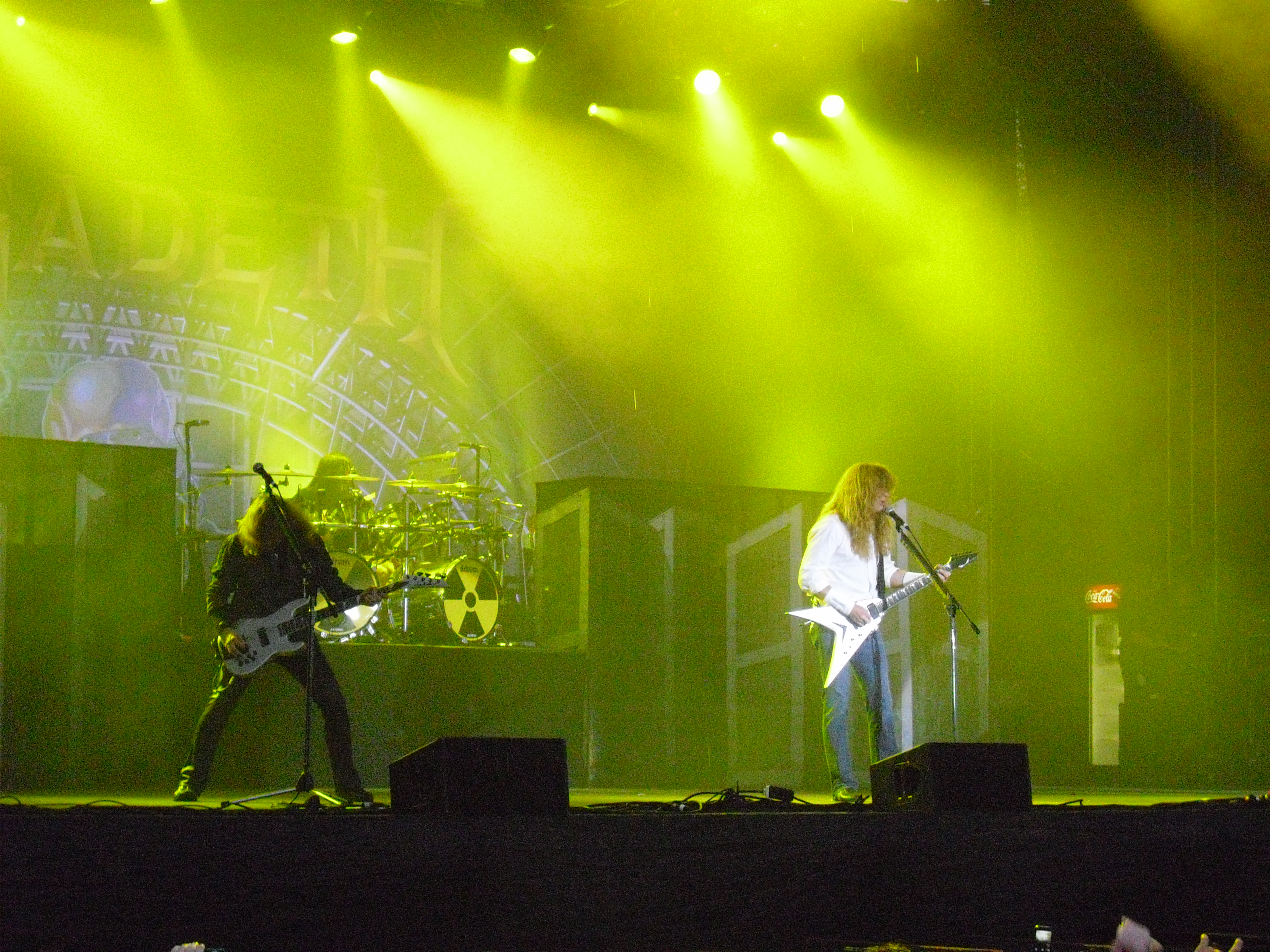 Megadeth performing live at Norway Rock Festival 2010